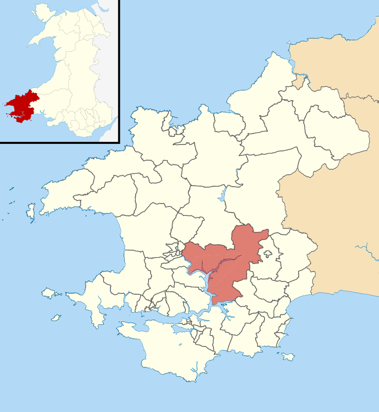 Location map of Martletwy electoral ward in Pembrokeshire, Wales, which covers the communities of Uzmaston, Boulston and Slebech, Martletwy, and Llawhaden